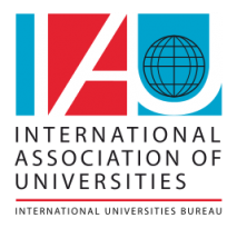 English-language logo of the International Association of Universities.